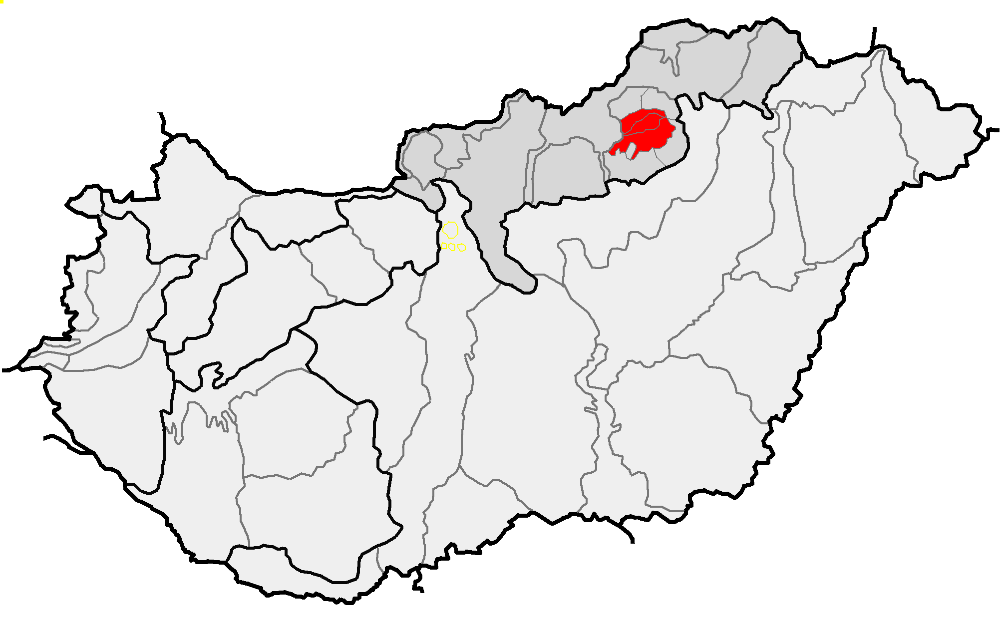 Location of geographical subregion of Központi-Bükk, this is Bükk-vidék (Bükk-vidék, (red) and macroregion of Északi-középhegység (gray) within subdivisions of Hungary. The mountain range proper consists of three parts or microregions (north to south): Északi-Bükk, Bükk-fennsík and Déli-Bükk .